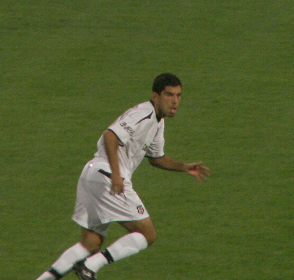 A photo of Ricardinho from a Besiktas match.